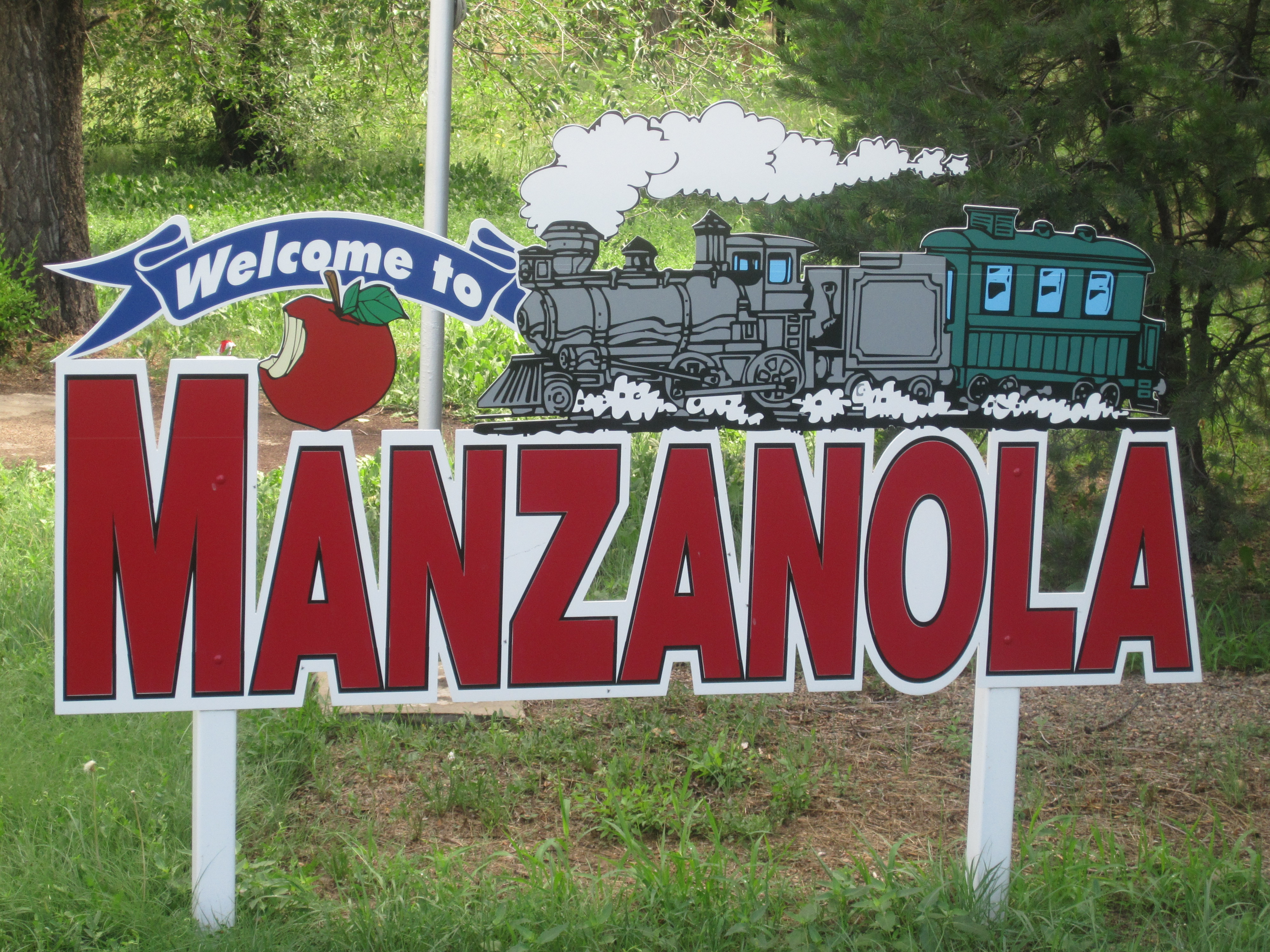 I took photo with Canon camera in Manzanola, CO.